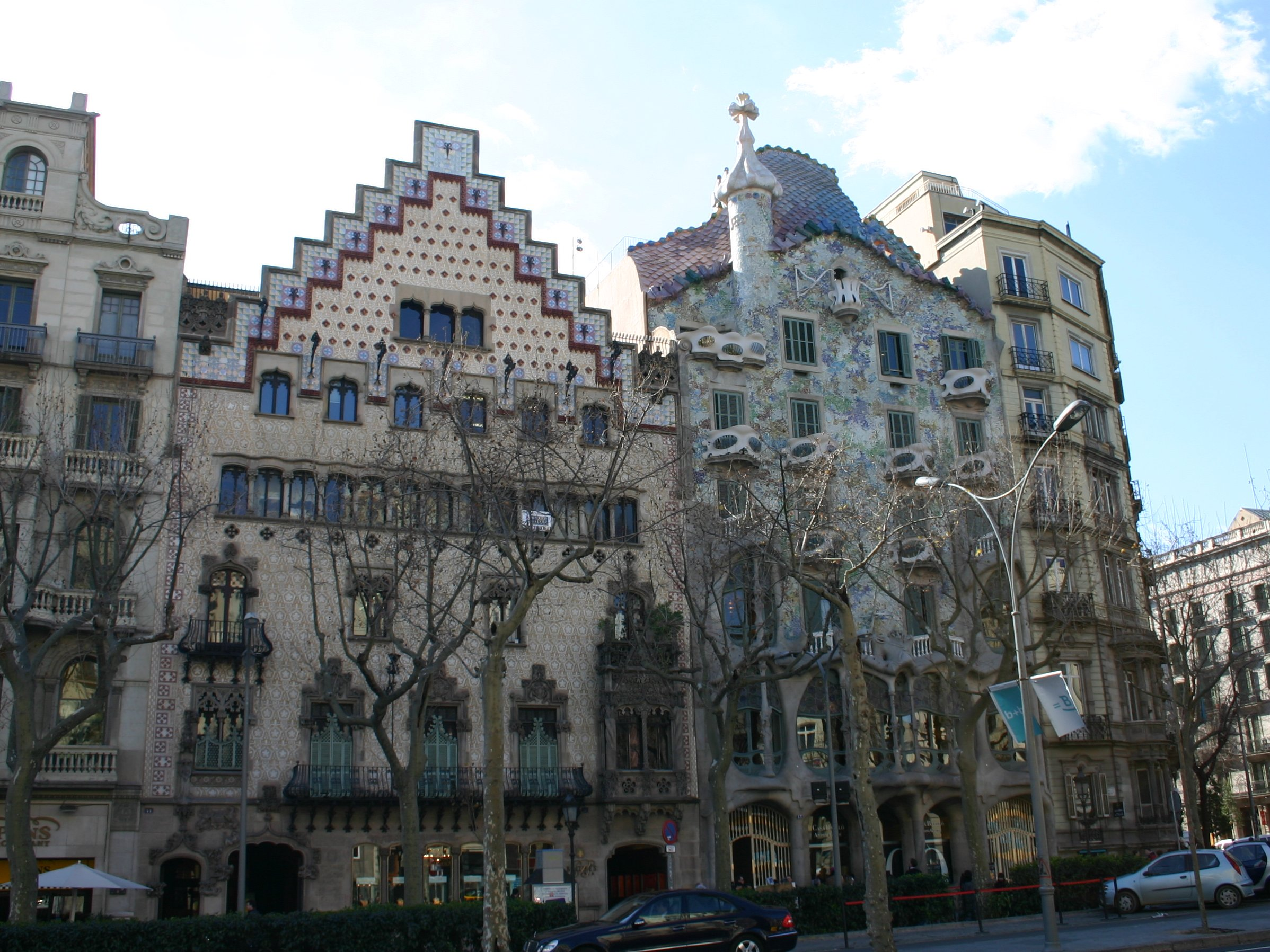 Casa Amatller by Josep Puig i Cadafalch (Left). Casa Batlló by Antoni Gaudí i Cornet (Right)